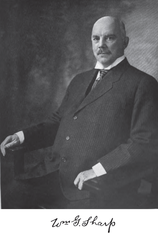 an Ohio congressman named William Graves Sharp